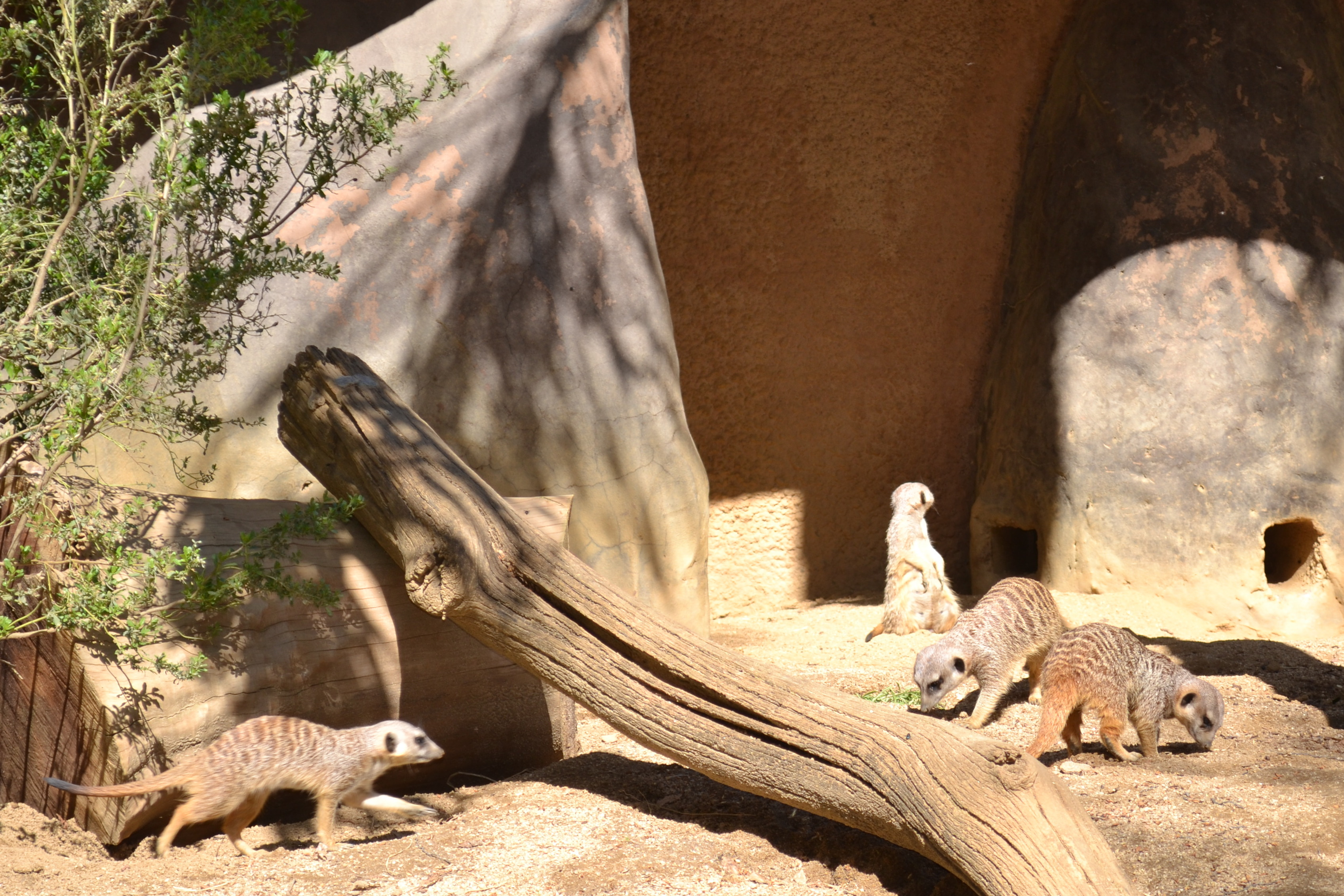 Meercats at Happy Hollow Park & Zoo